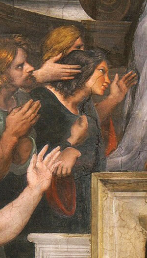 Fresco.